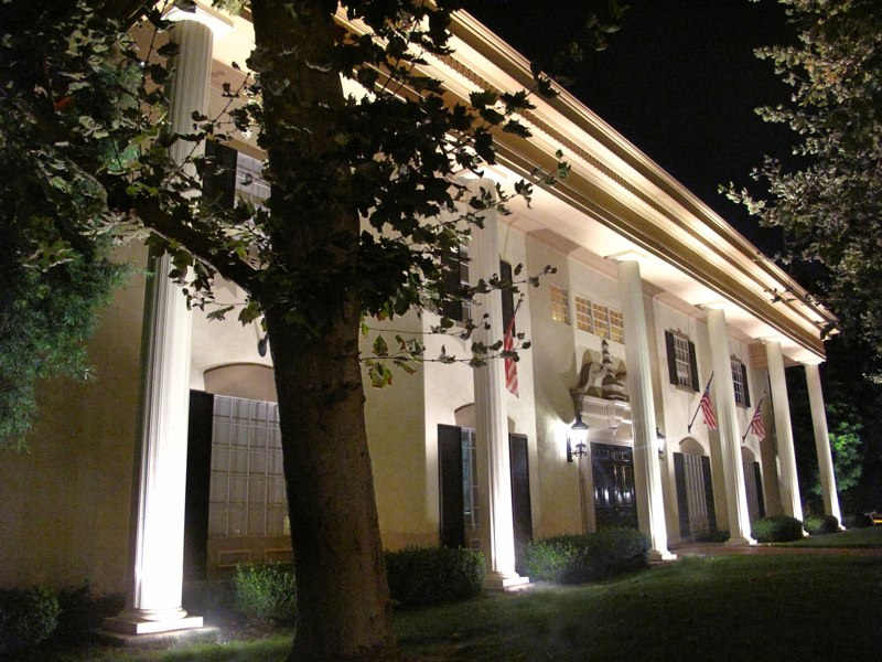 Southern colonial style at night